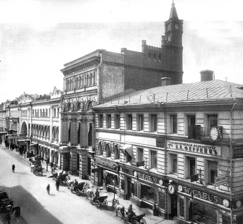 «Расстрéльный дом». Фотография 1911 года